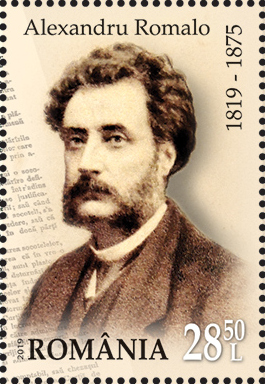 Alexandru Romalo, 200th, anniversary of his birth